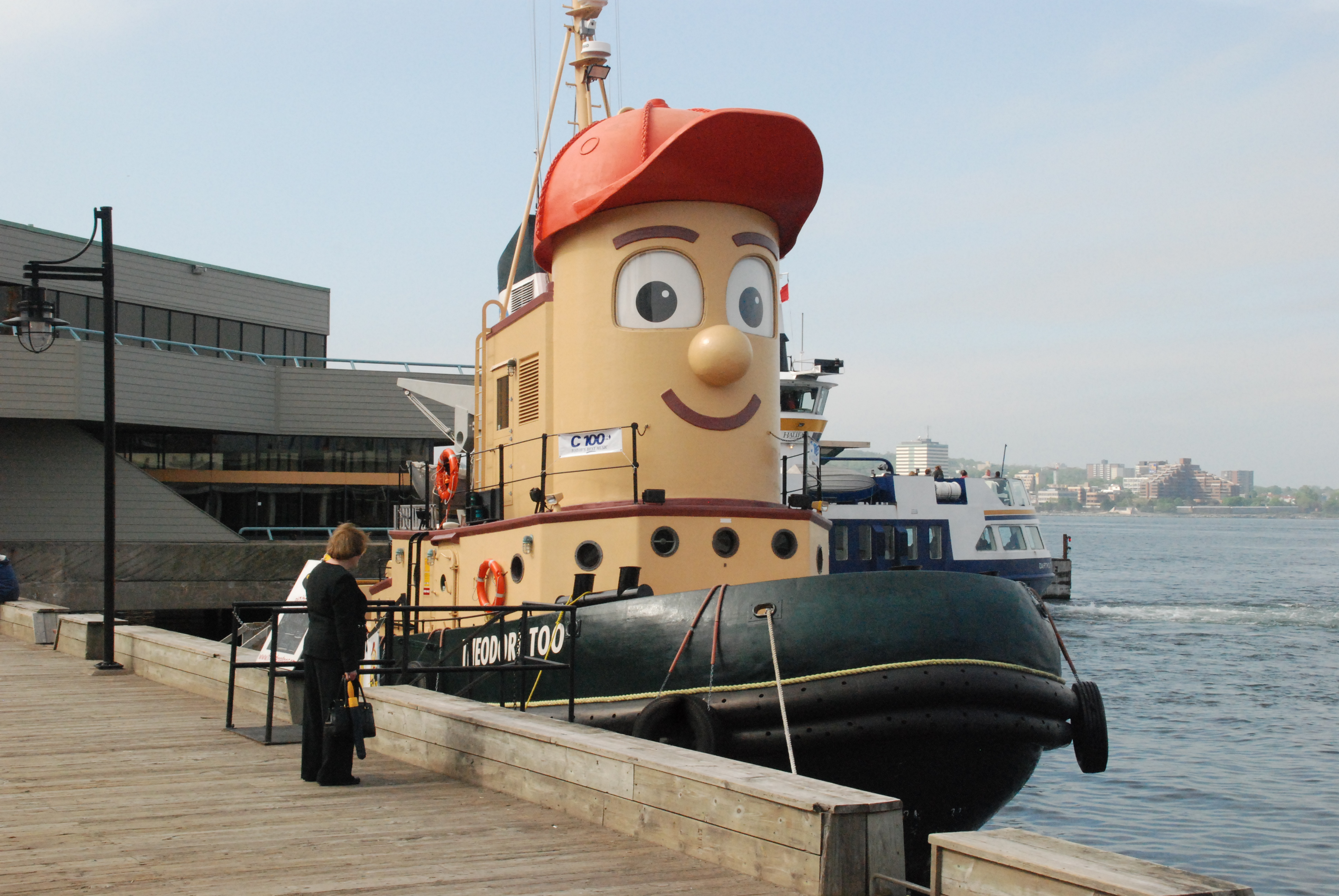 The Theodore Too, a reproduction of the main character in a puppet series about Tugboats in the "big harbour" -- based on Halifax.